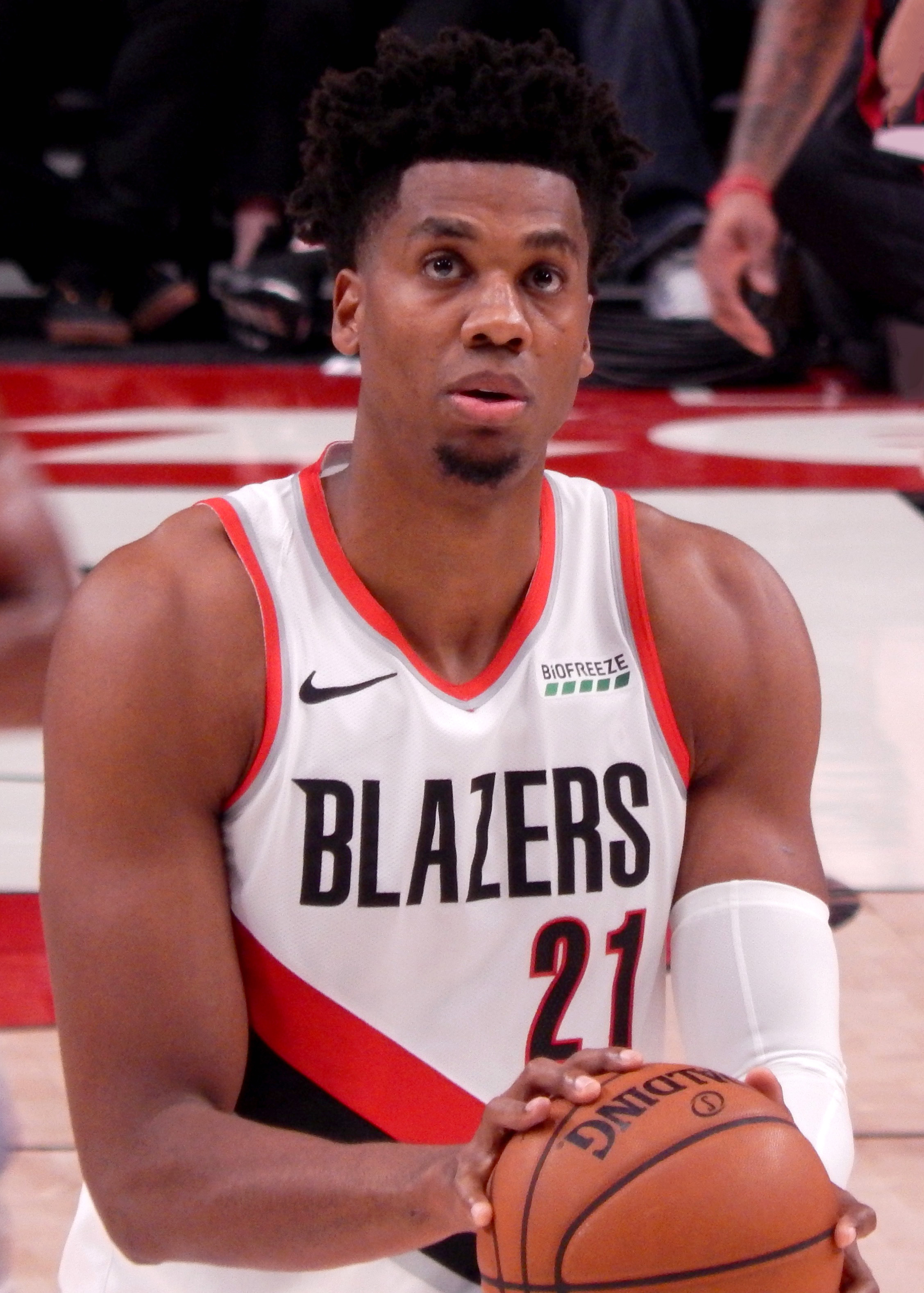 Hassan Whiteside #21 of the Portland Trail Blazers shoots a free throw during the game against the Sacramento Kings on December 4, 2019 at the Moda Center Arena in Portland, Oregon.